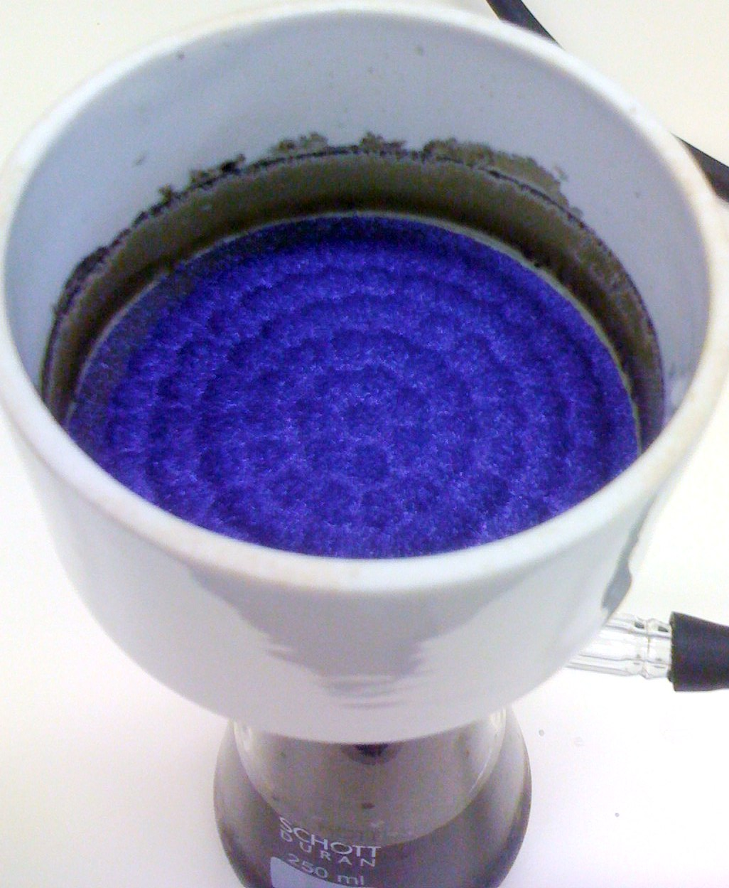 Tetratolylporphyrin